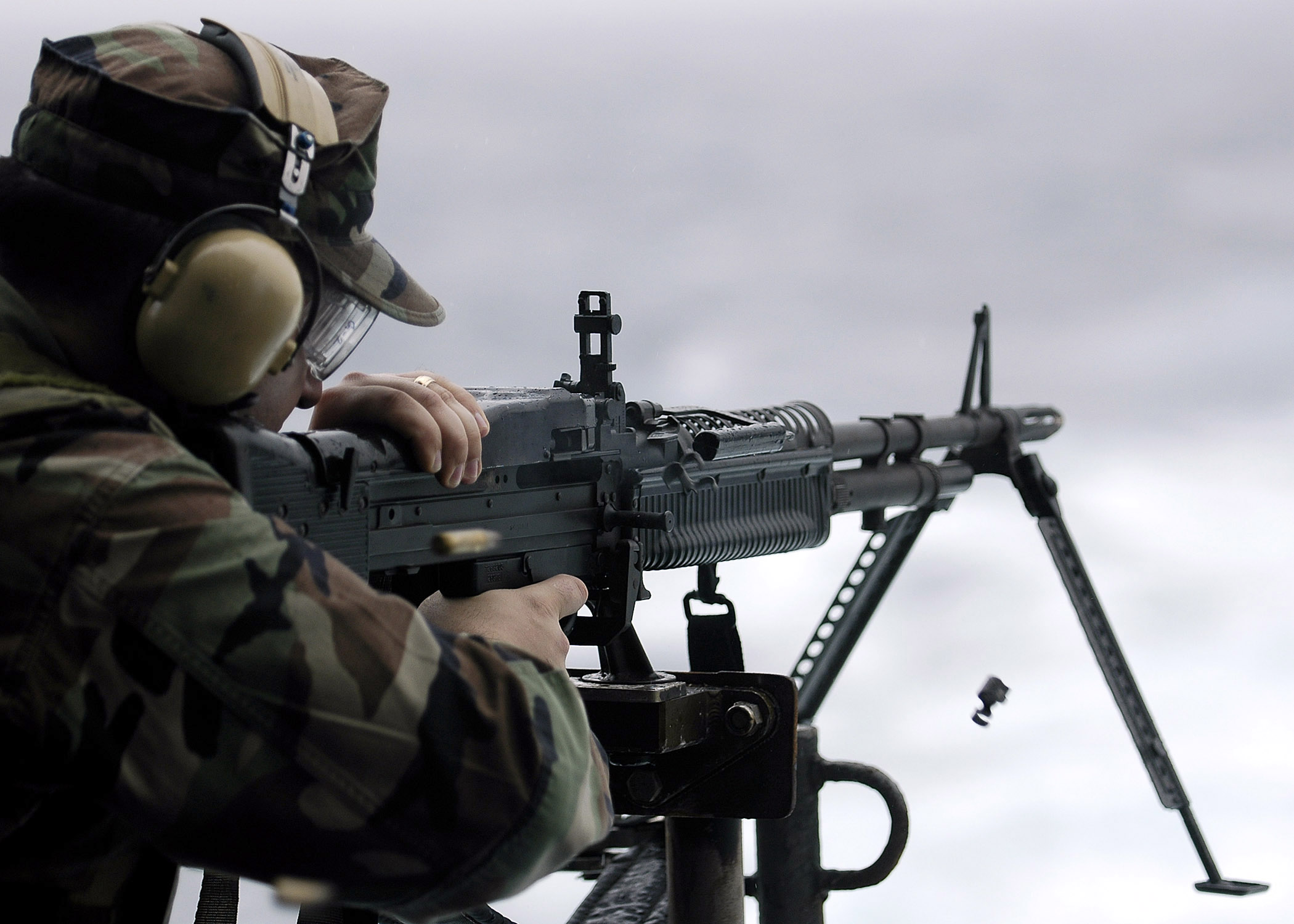 060324-N-4166B-069 Pacific Ocean (March 24, 2006)- Postal Clerk Second Class Robert Buckholtz fires an M-60 Machine Gun during a weapons Familiarization Fire,(Fam-Fire) on the Fantail of the Nimitz Class Carrier USS Abraham Lincoln (CVN 72). The Fam-Fire was held for essential personnel from various divisions throughout the Lincoln as a familiarization evolution. The Lincoln and Carrier Air Wing TWO (CVW-2) are currently underway to the Western Pacific for a scheduled six-month deployment.